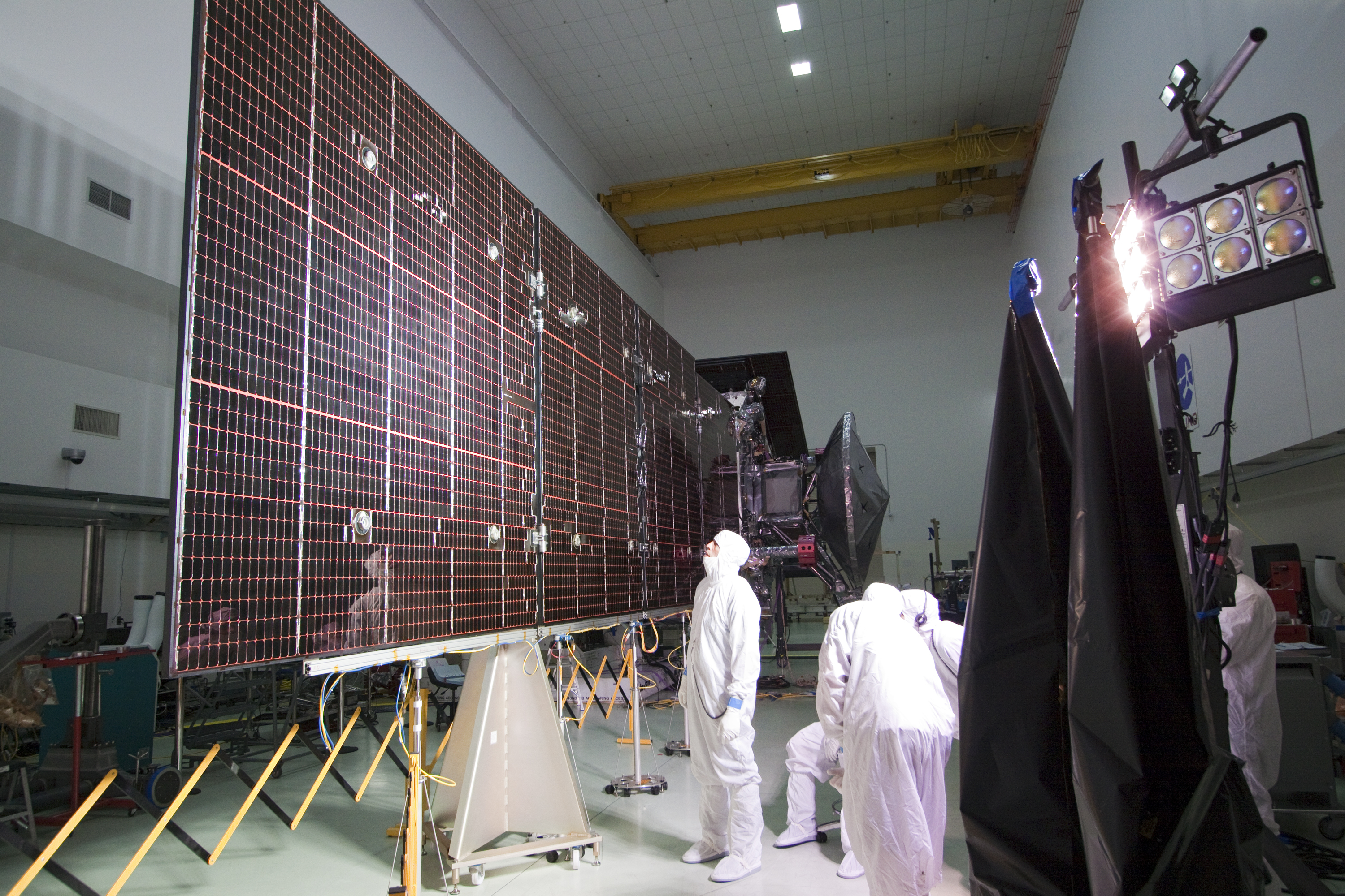 CAPE CANAVERAL, Fla. -- In a clean-room environment at Astrotech's payload processing facility in Titusville, Fla. technicians conduct an illumination test on the solar array panels for NASA's Juno spacecraft. Juno is scheduled to launch aboard a United Launch Alliance Atlas V rocket from Cape Canaveral, Fla. Aug. 5.The solar-powered spacecraft will orbit Jupiter's poles 33 times to find out more about the gas giant's origins, structure, atmosphere and magnetosphere and investigate the existence of a solid planetary core. For more information visit